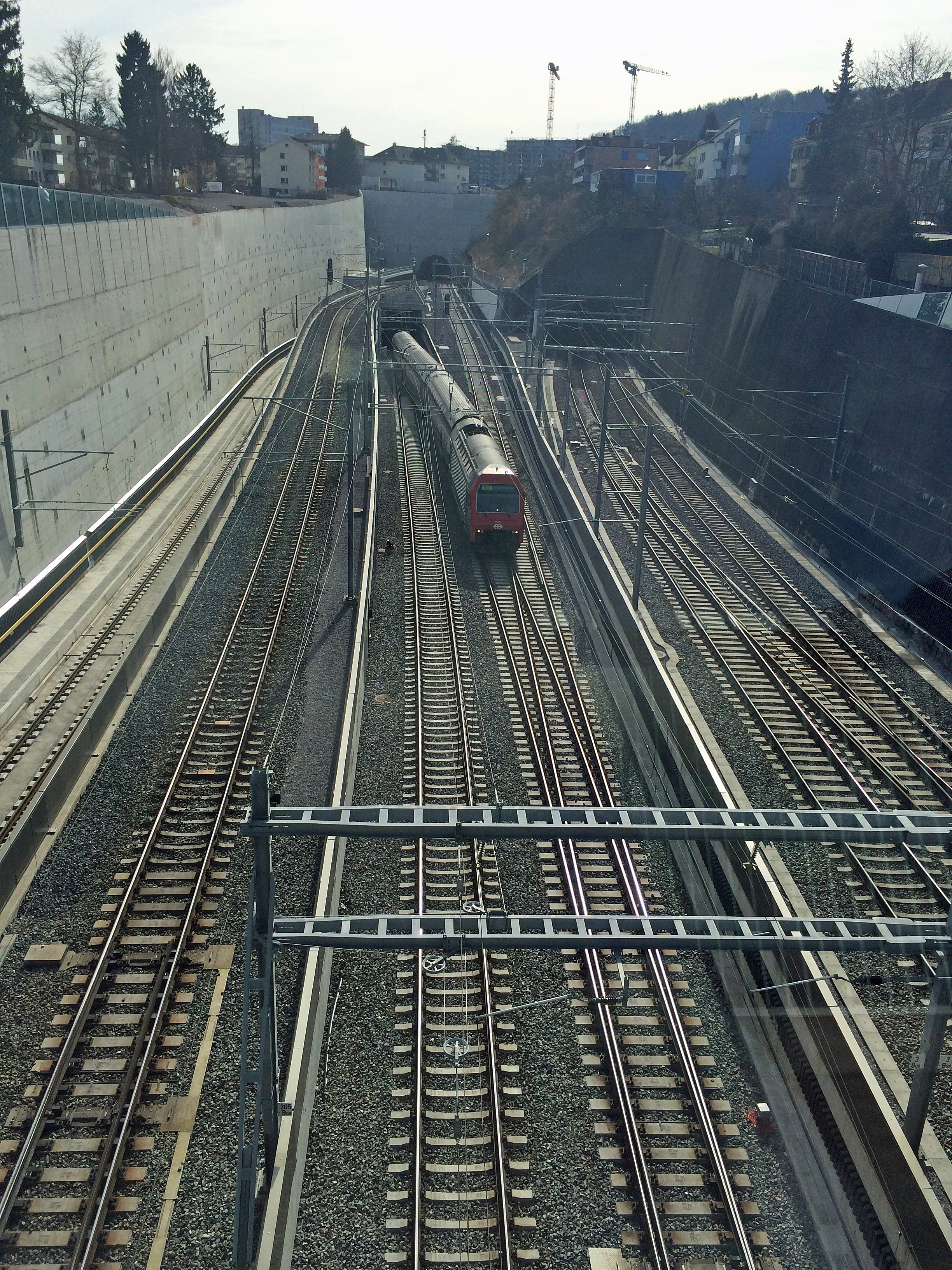 Portals of three railway tunnels in Oerlikon, Zürich, Switzerland – from left: Weinbergtunnel, Wipkingertunnel, Käferbergtunnel – S-Bahn train coming from Zürich Hauptbahnhof leaving Weinbergtunnel